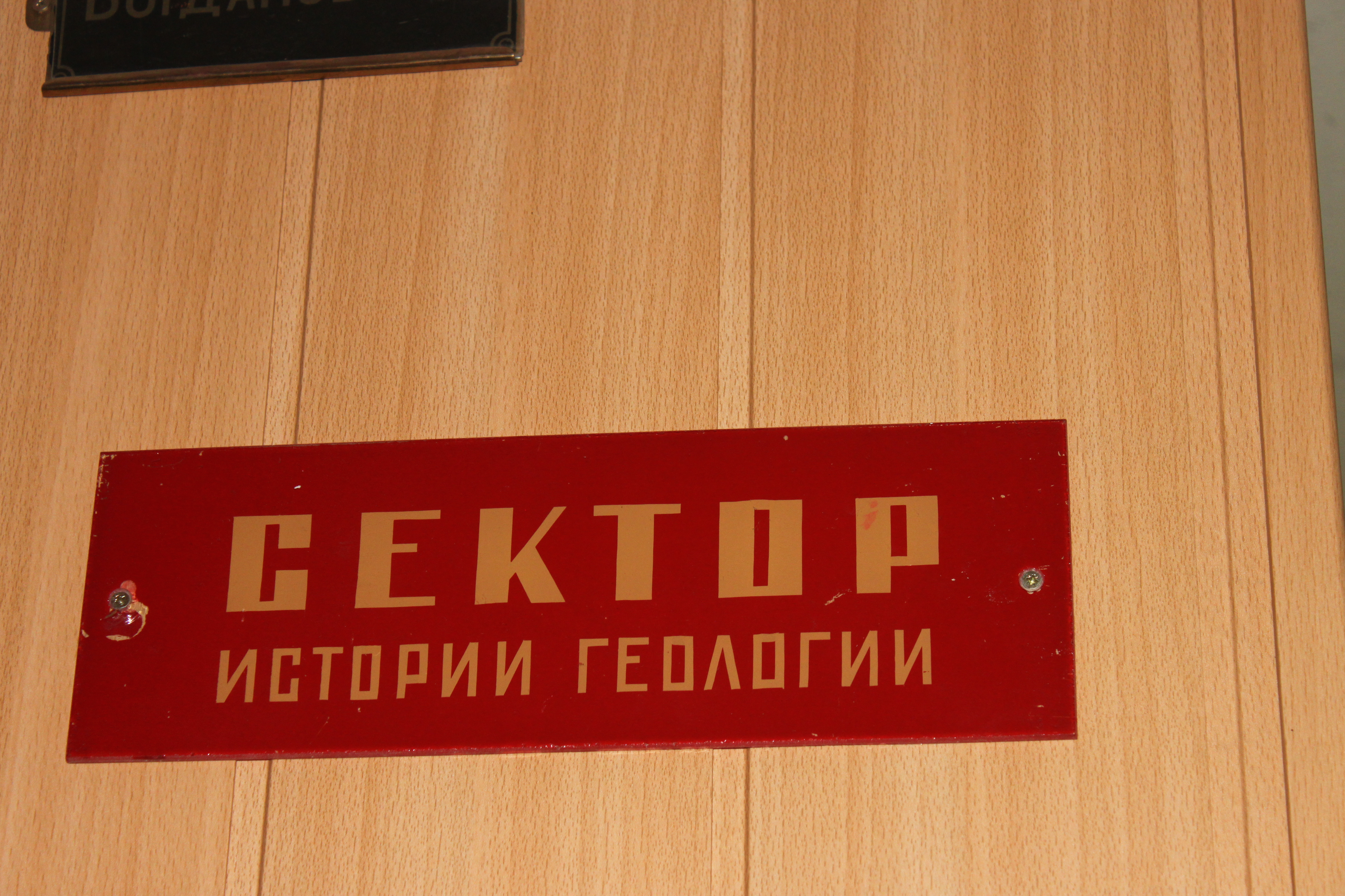 Wikitrip to Geography Institute RAS 2019-12-19.